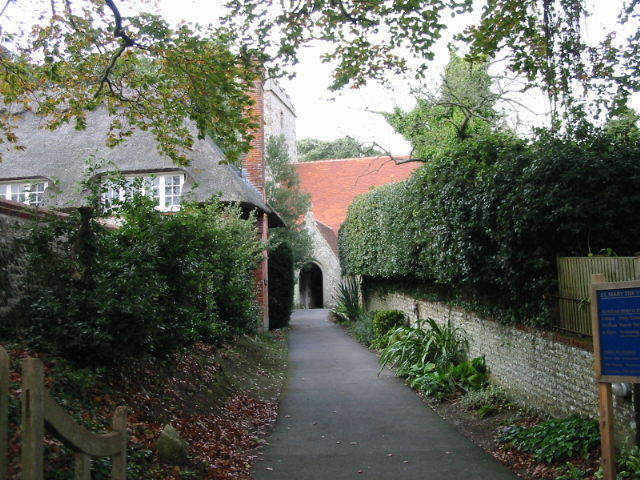 Path leading to St Mary's church